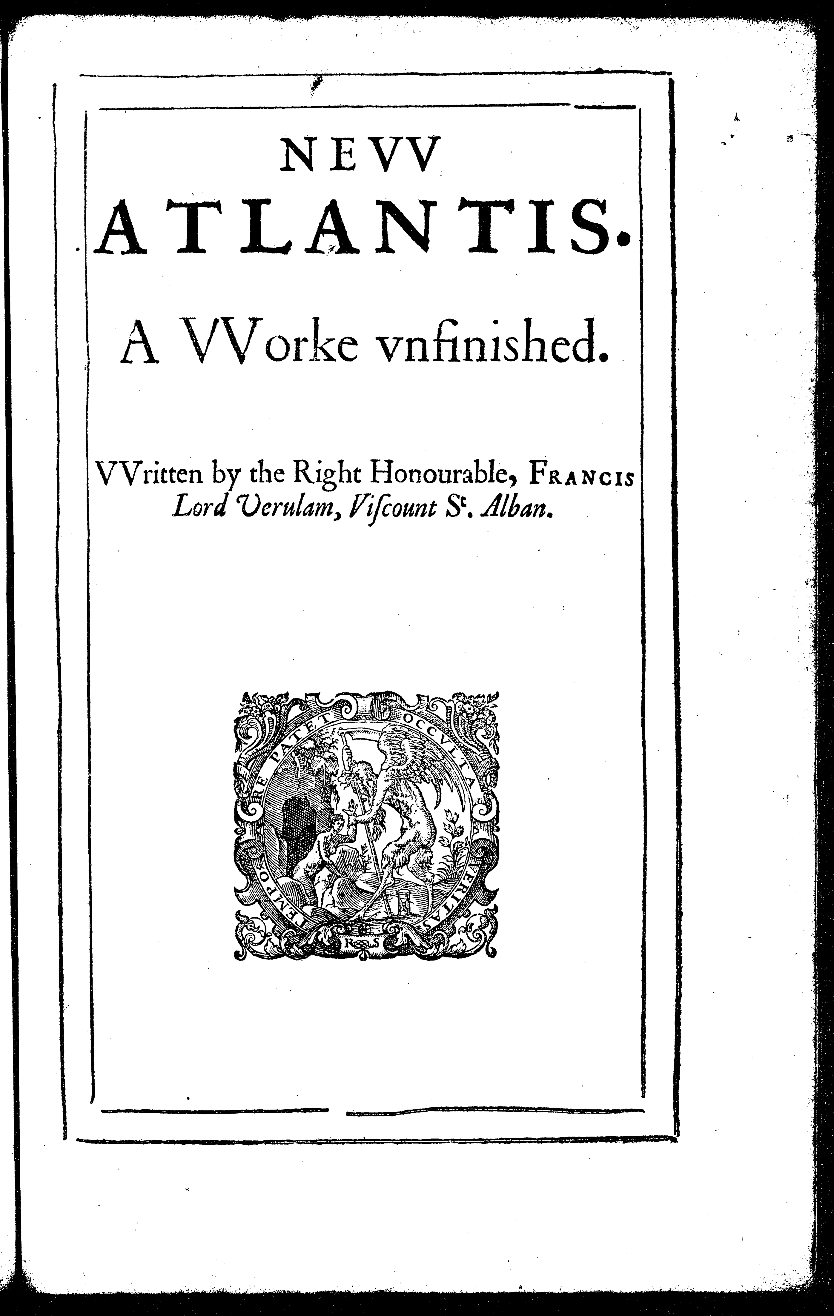 Title page of New Atlantis in the second edition of Francis Bacon's Sylva sylvarvm: or A naturall historie. In ten centvries. London. Printed by J.H. for William Lee at the Turkes Head in Fleet-street, next to the Miter, 1628